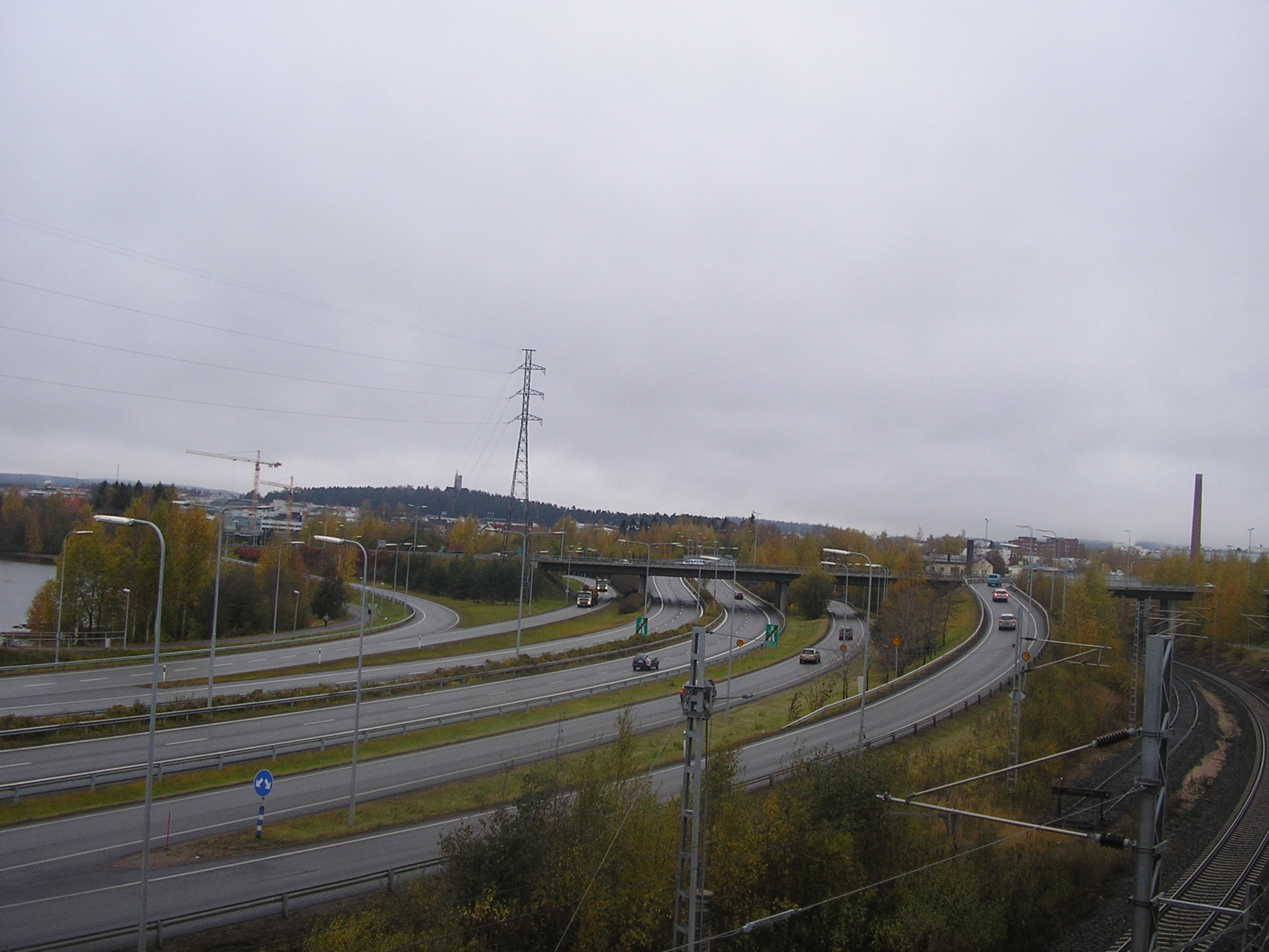 Main roads 4 (E75), 9 (E63), 13 and 23 on Aholaita interchange in Jyväskylä, Finland